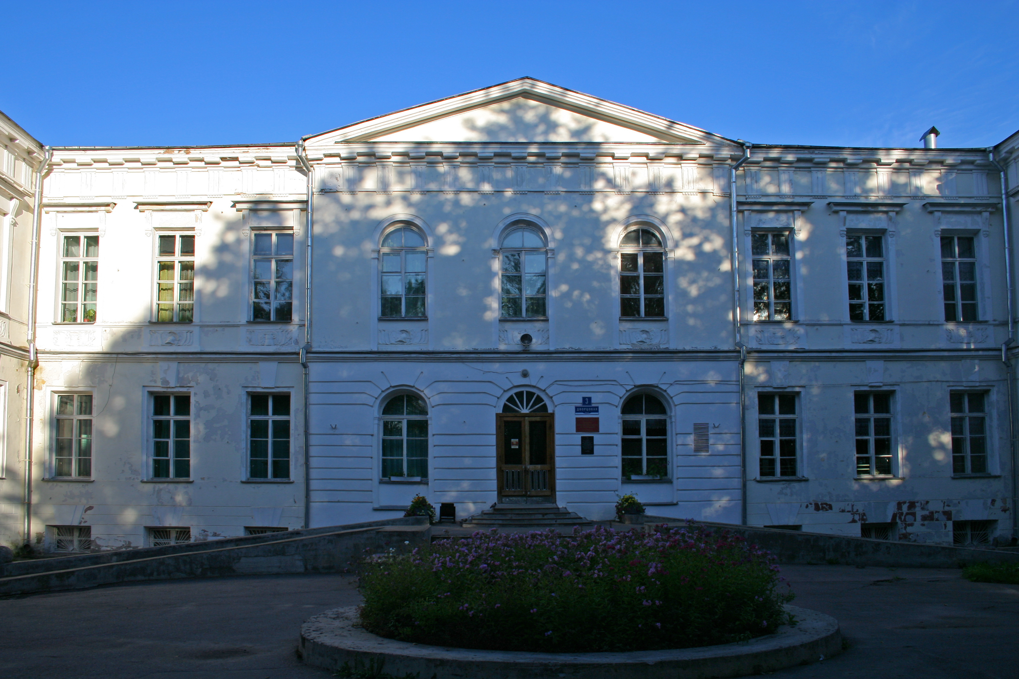 Views of Velikiy Novgorod. The Palace Street. Culture house (former travel palace).